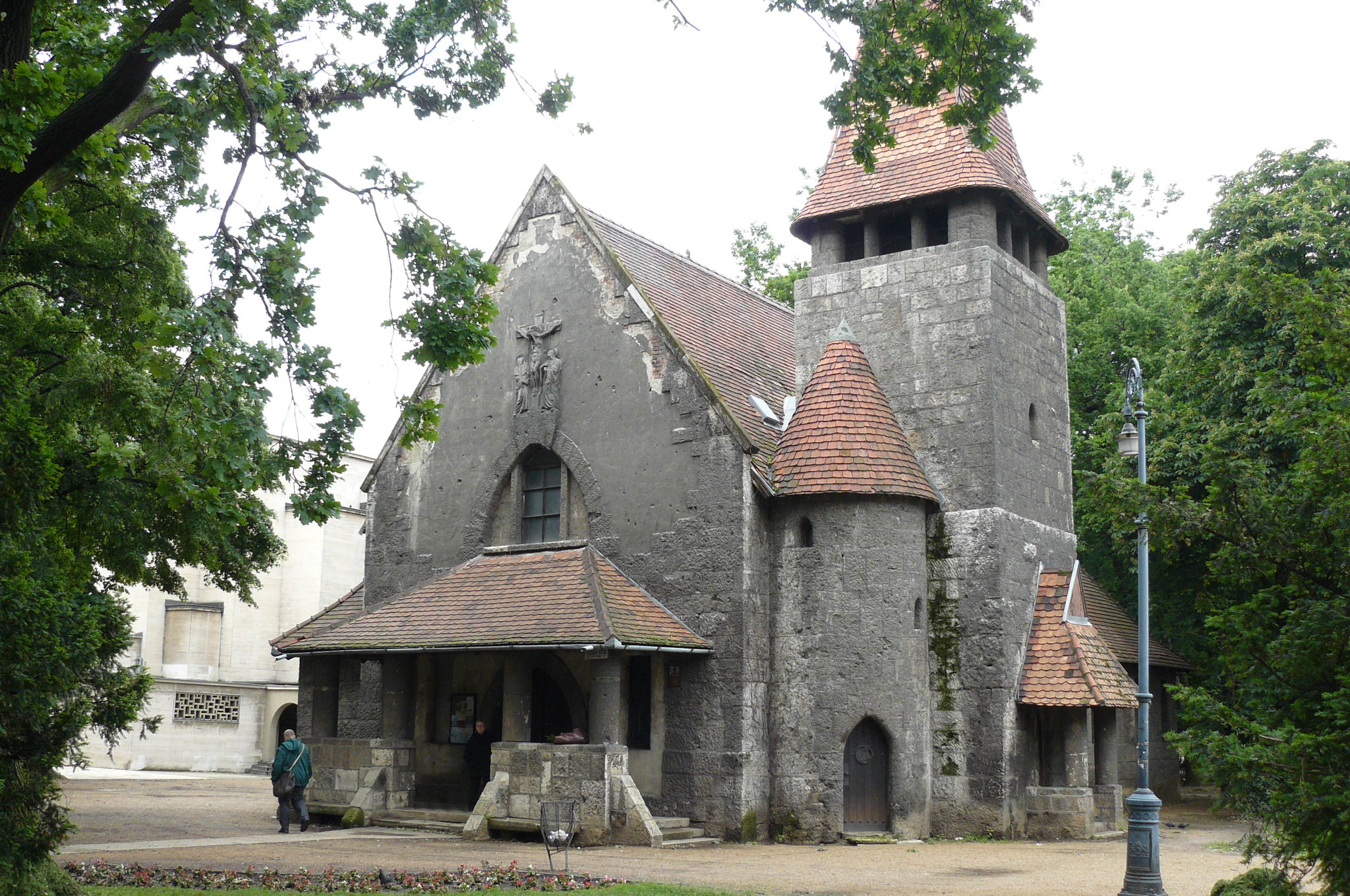 Városmajor small church or Városmajor Chapel in Budapest.